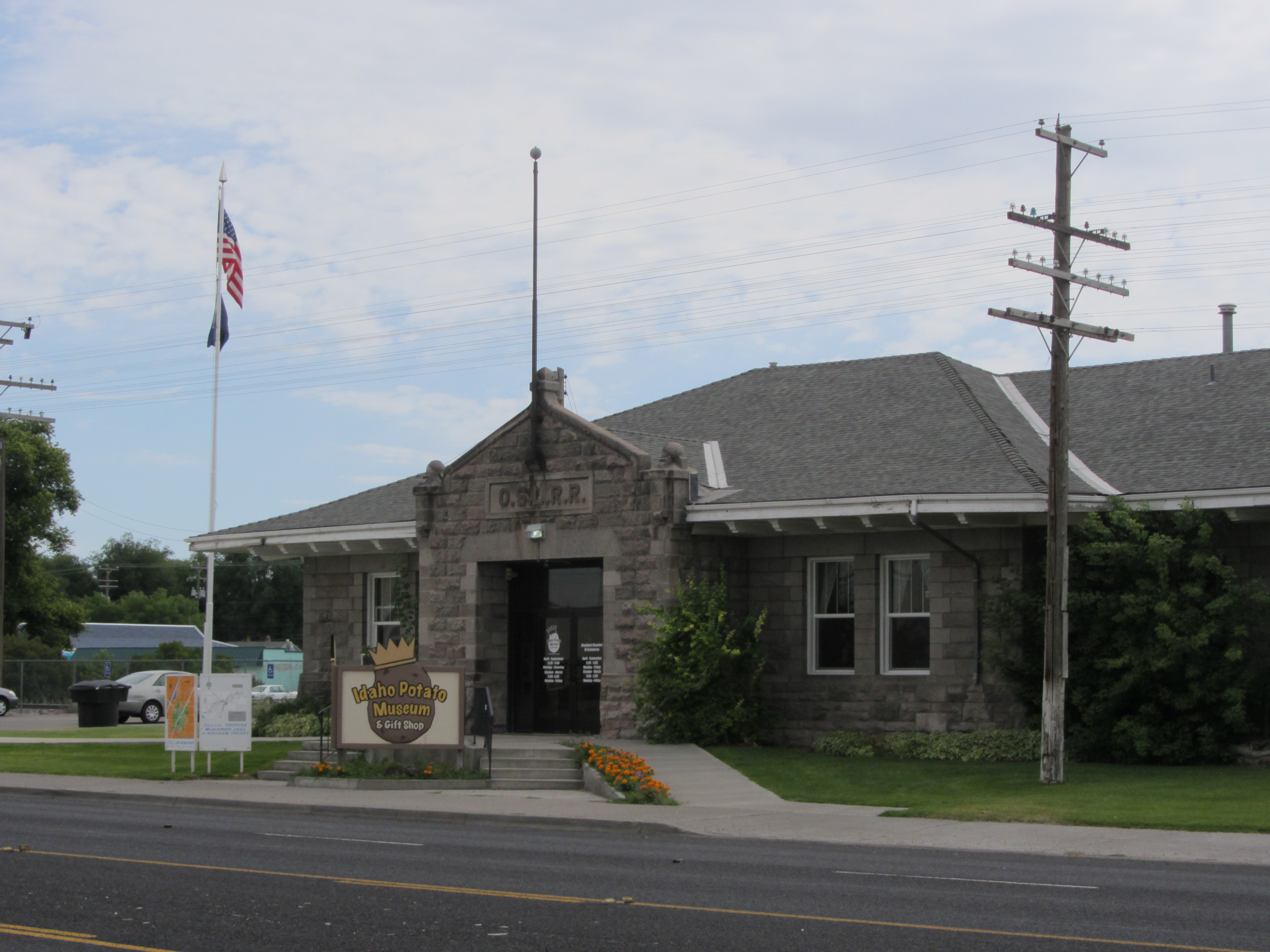 130 Northwest Main St; Blackfoot, ID 83221